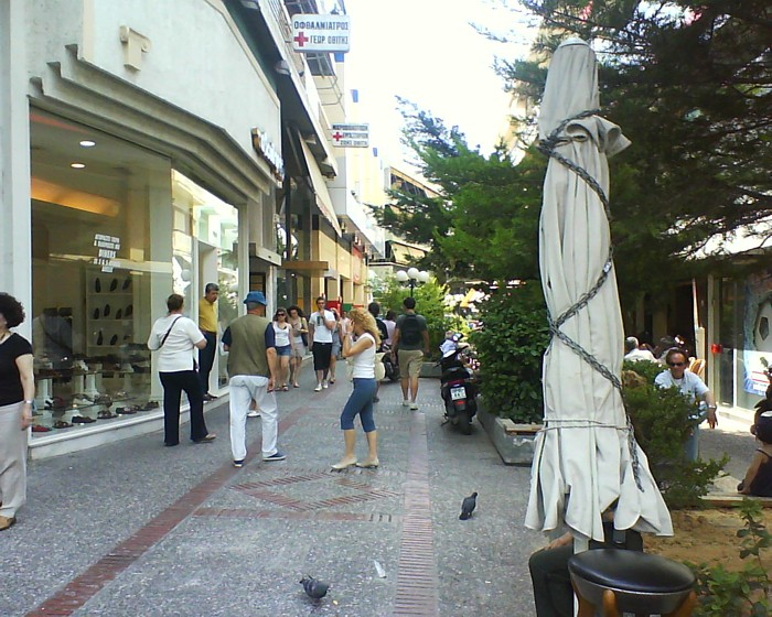 The Trading Street at Halandri, Athens, Greece.